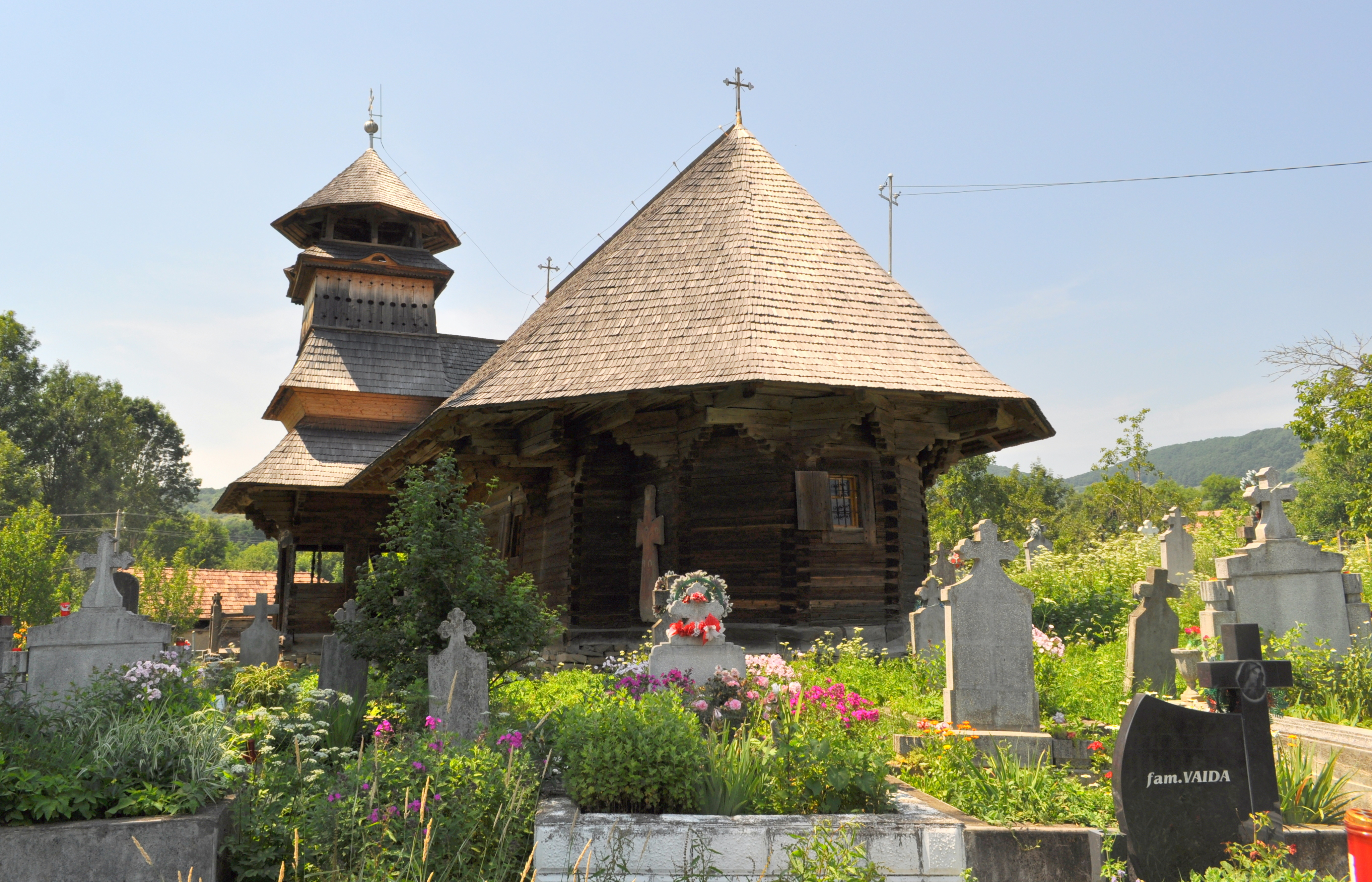 Wooden church in Săcalu de Pădure, Mureș countyRomână: Biserica de lemn din Săcalu de Pădure, județul Mureș